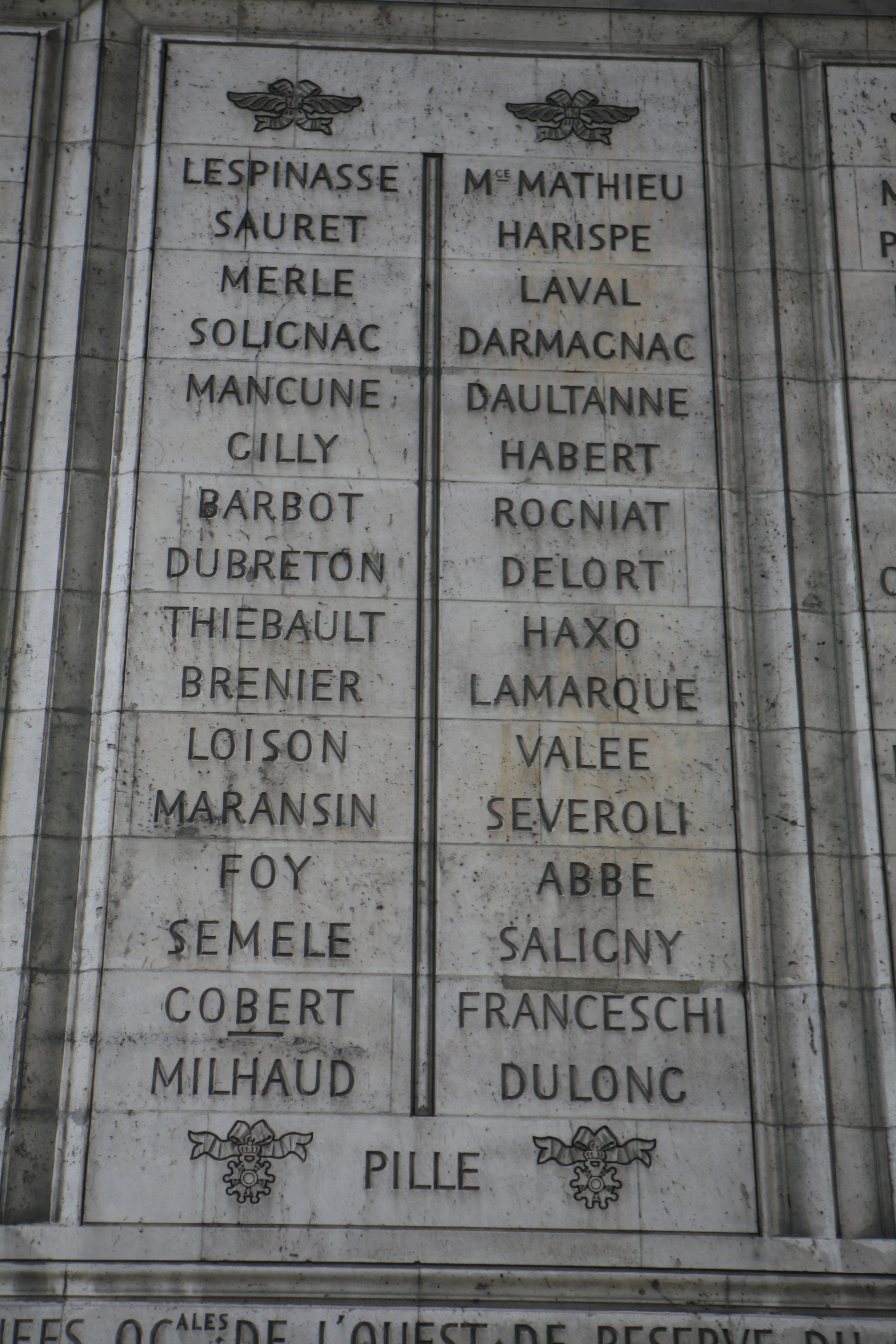 Inscriptions of the Arc de Triomphe. Western pillar, Columns 35, 36.